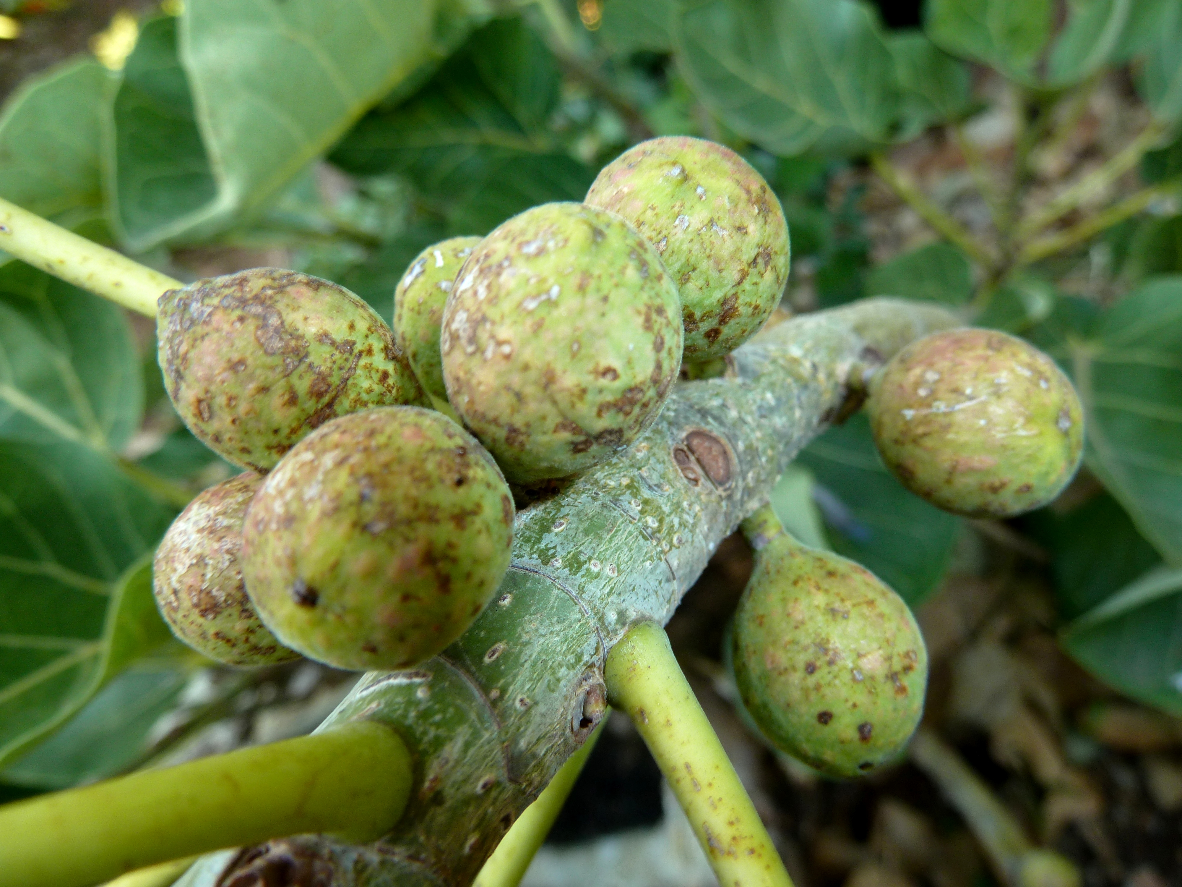 Placement of figs on a Large-leaved rock fig in Wapadrand, Pretoria